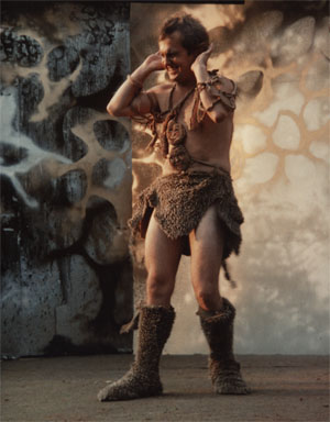 Riverside Shakespeare Company A Midsummer Night's Dream Eric Hoffmann as Puck, (1978).